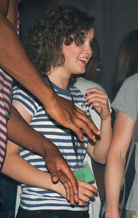 Actress April Pearson On The Stage in Skins Party 2007.